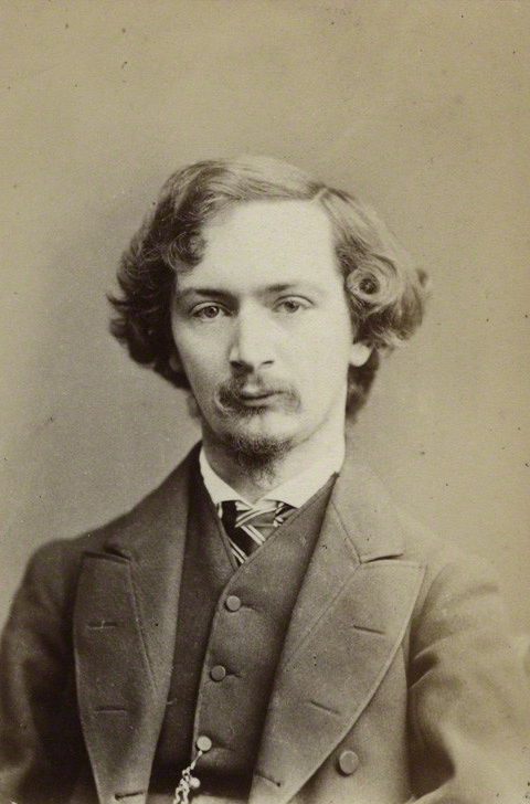 Portrait of Algernon Charles Swinburne